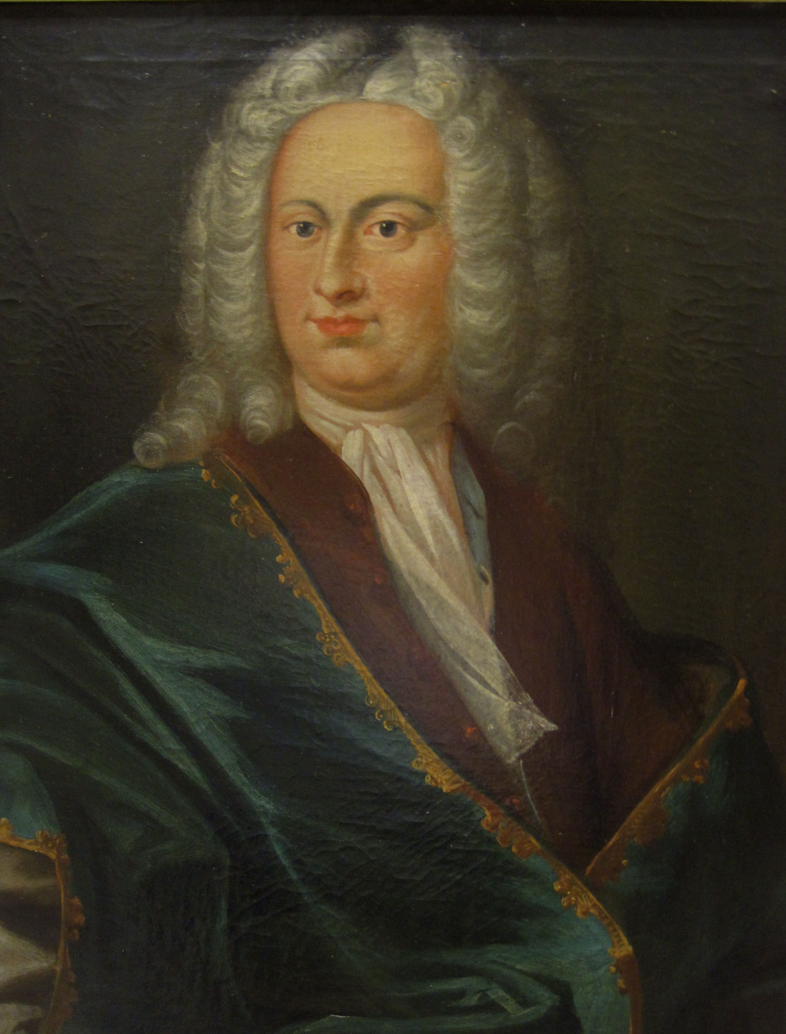 Nils Wolff Stiernberg (1641-1694), professor of logic and metaphysics at Lund University and of moral philosophy at Uppsala University.